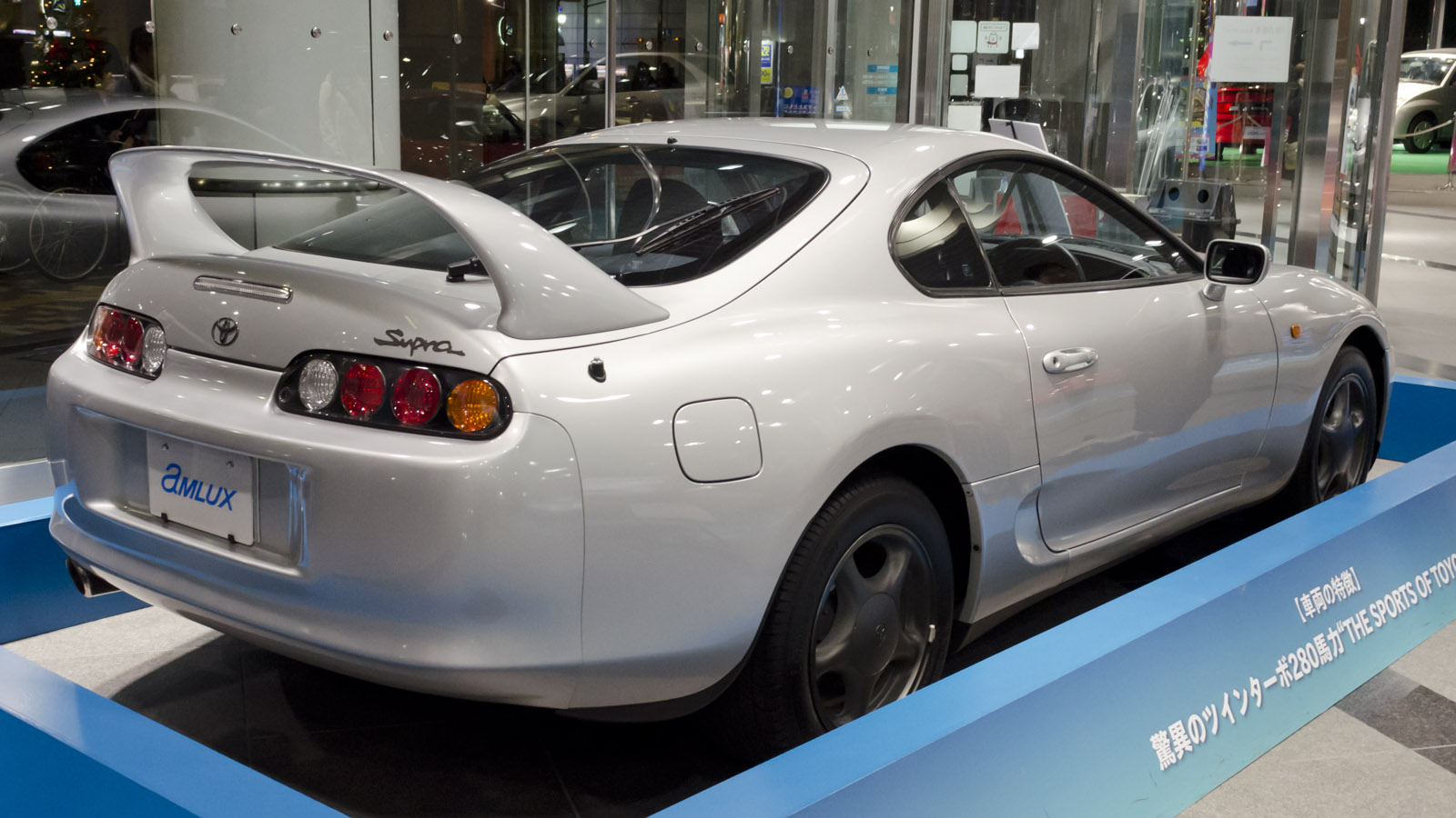 2nd generation Toyota Supra